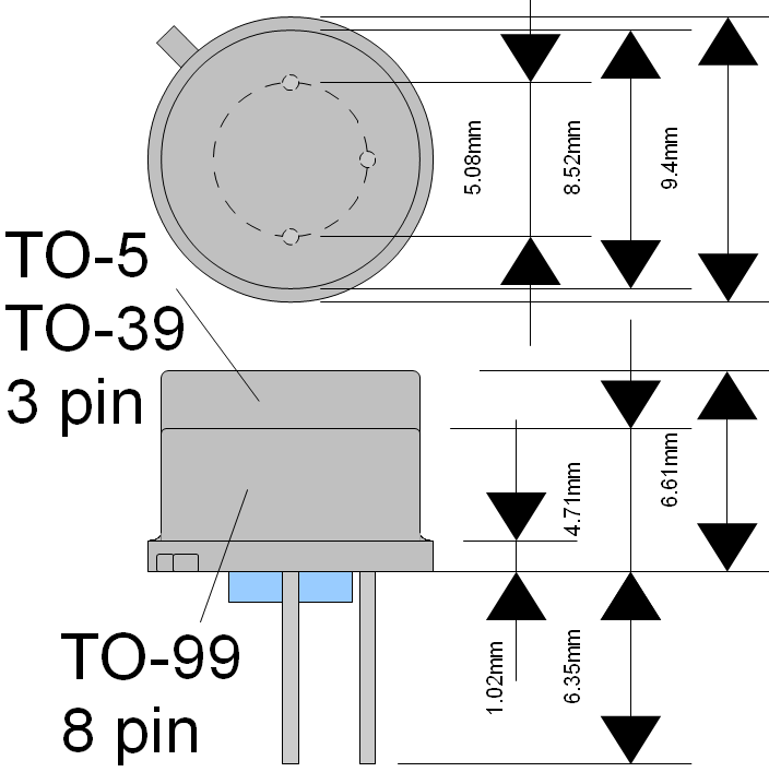 TO-39 and TO-99 electronic device packages